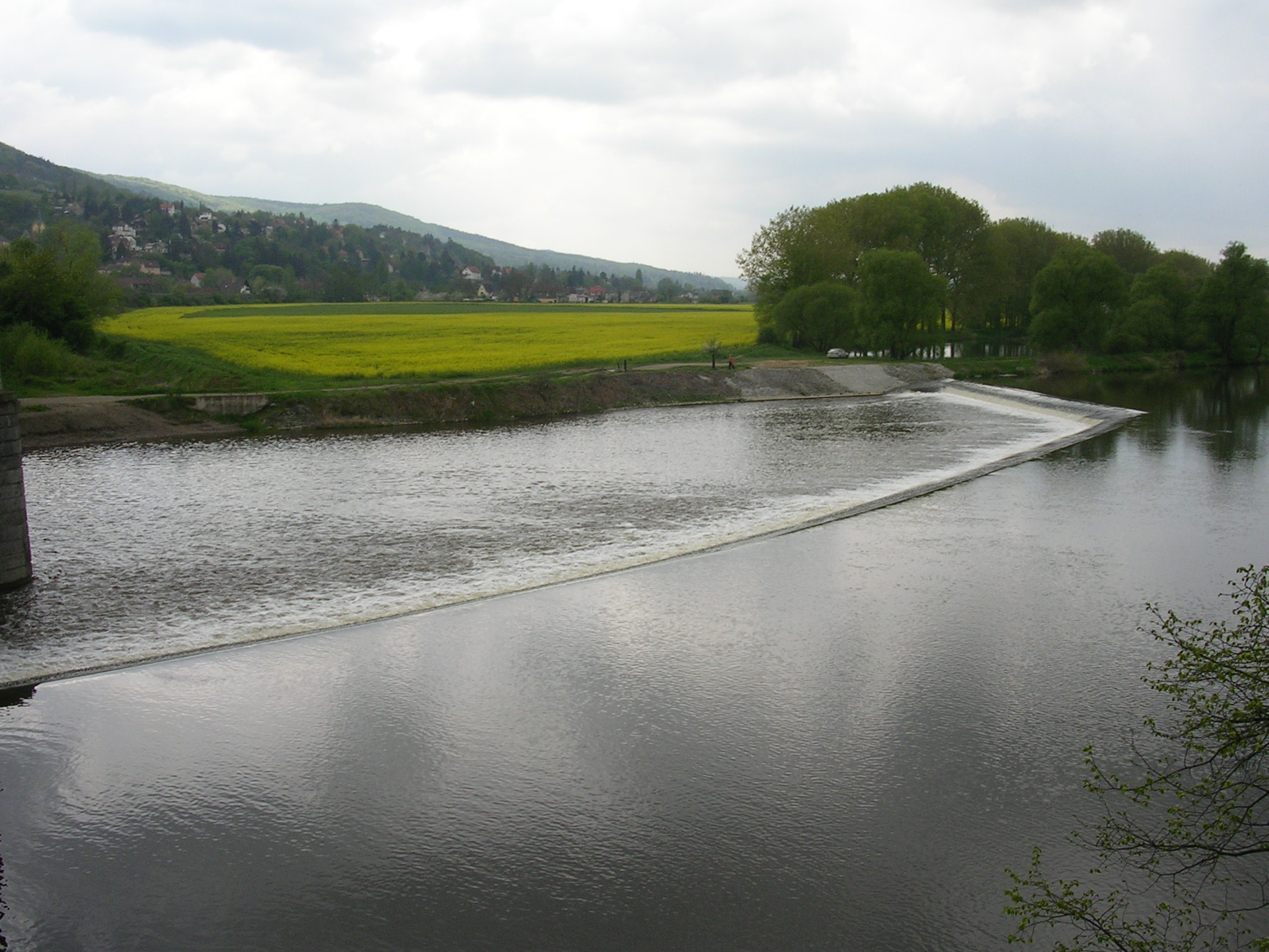 Všenory, the Czech Republic. Mokropsy Weir on the Berounka river.